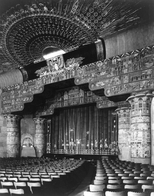 Grauman's Egyptian Theatre interior in 1922 — in central Hollywood, California. One of the world's more famous movie theaters. Opened in 1922, it was the location of the first-ever Hollywood premiere.